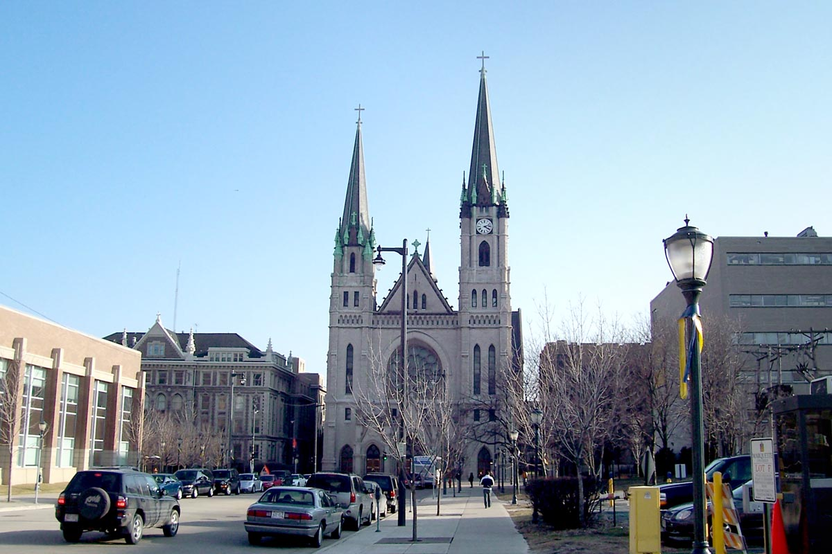 Copyright © 2006 Sulfur Gesu Church is part of the downtown campus of Marquette University in Milwaukee, Wisconsin.